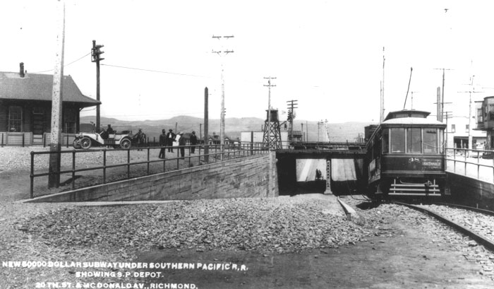 A (Car #38) East Shore & Suburban commuter train towards Point Richmond undercrossing the Southern Pacific tracks at Macdonald Avenue